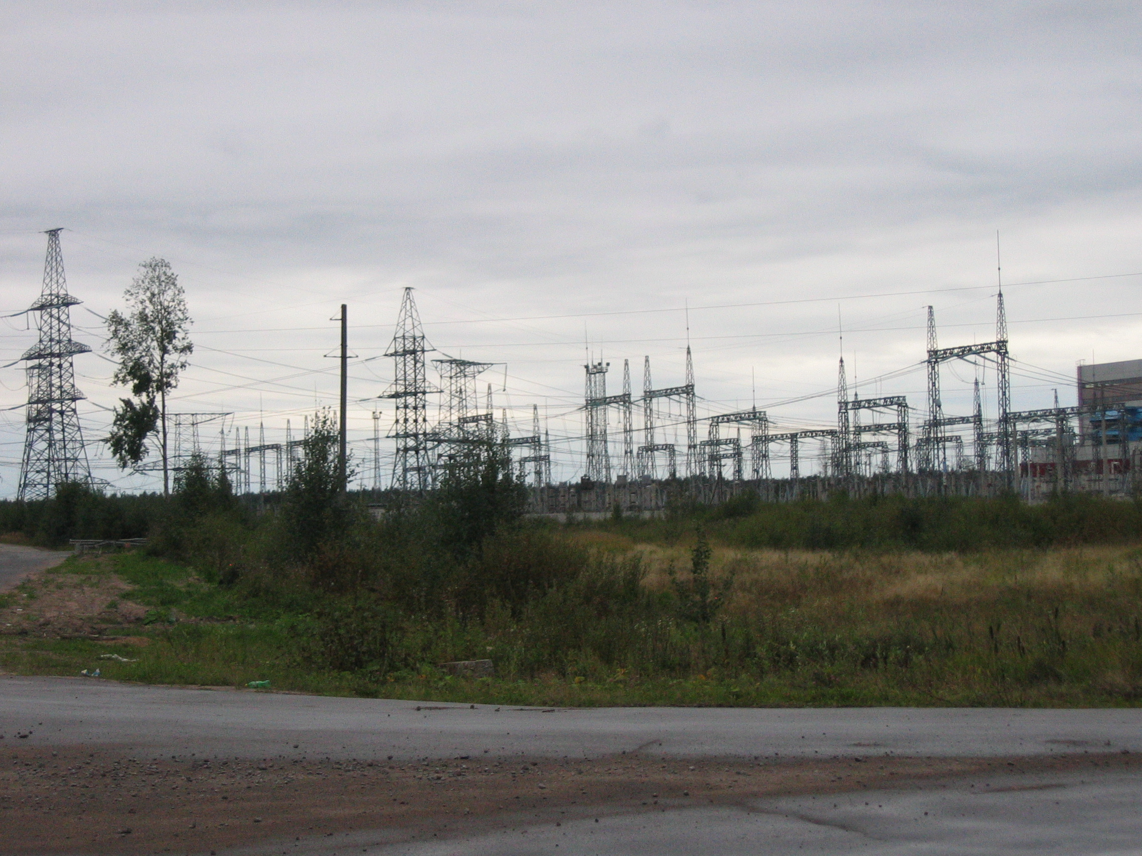 High-voltage switchgear near the North-West CHP power station (Saint-Petersburg, Russia)